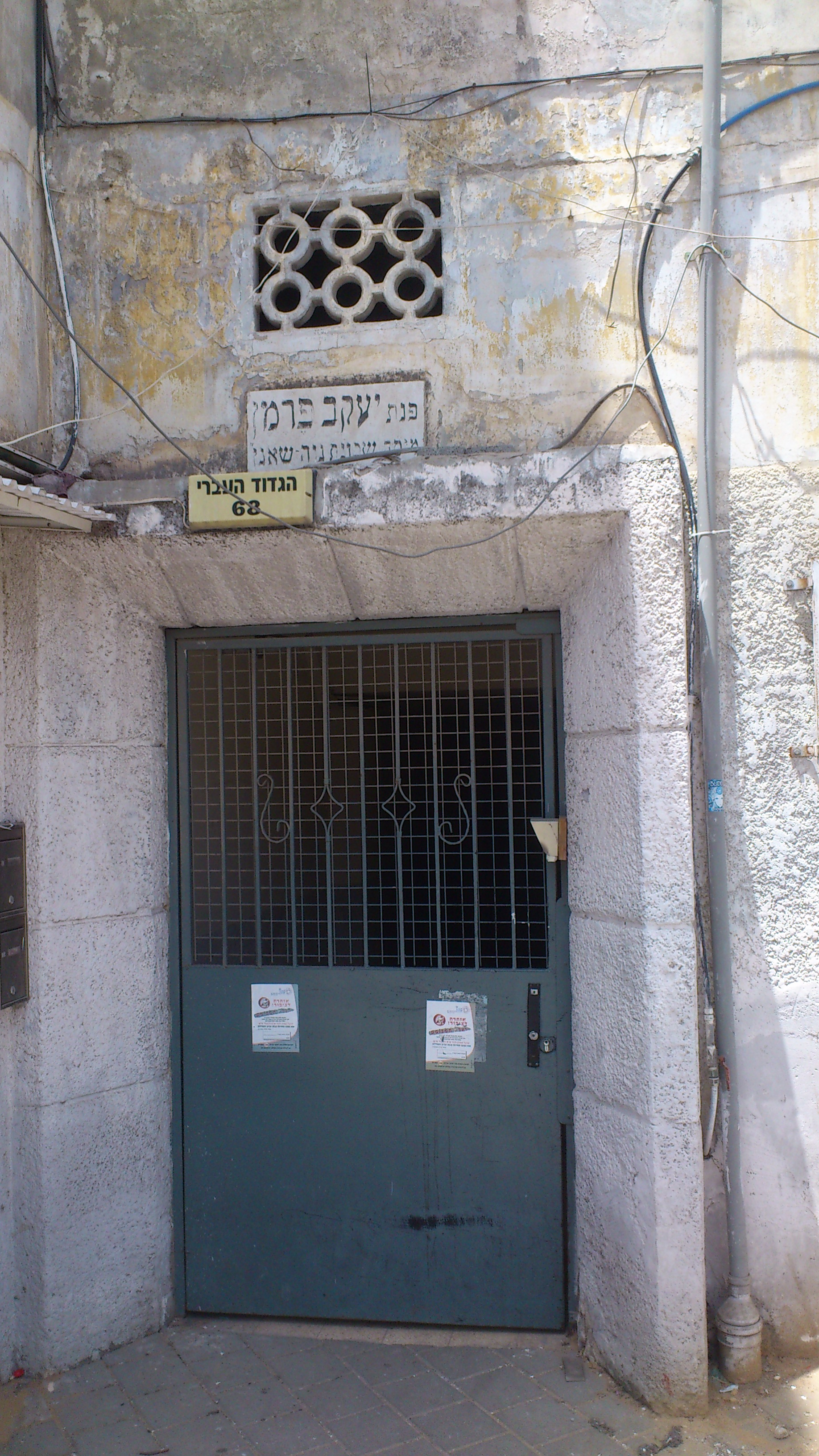 Nave Sha'anan, Tel Aviv